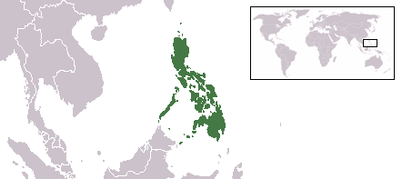 Map of the Philippine Commonwealth. C. 1909-1946